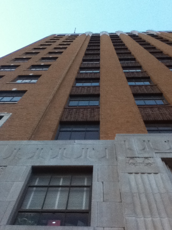 Looking up from the ground at the Broadway Tower in Enid, Oklahoma.